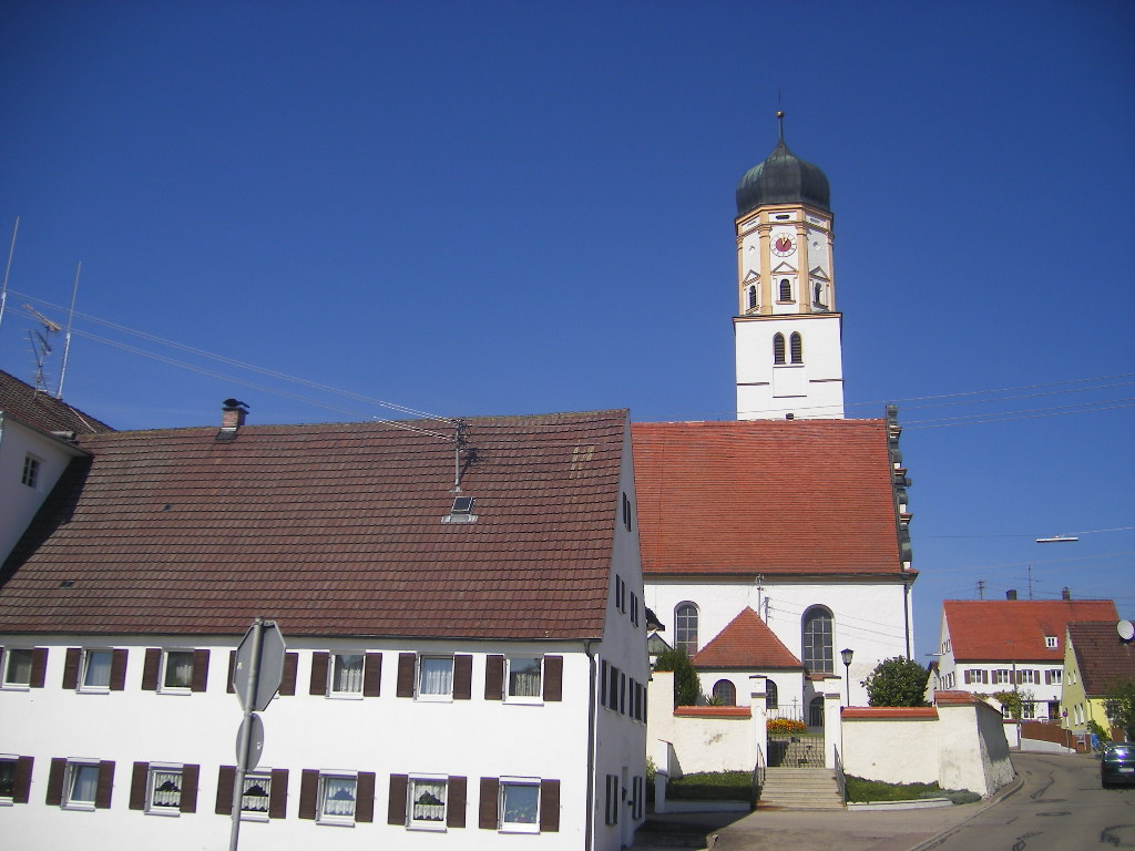 Steinheim (city of Dillingen an der Donau), mill an Parish Church of the Presentation.